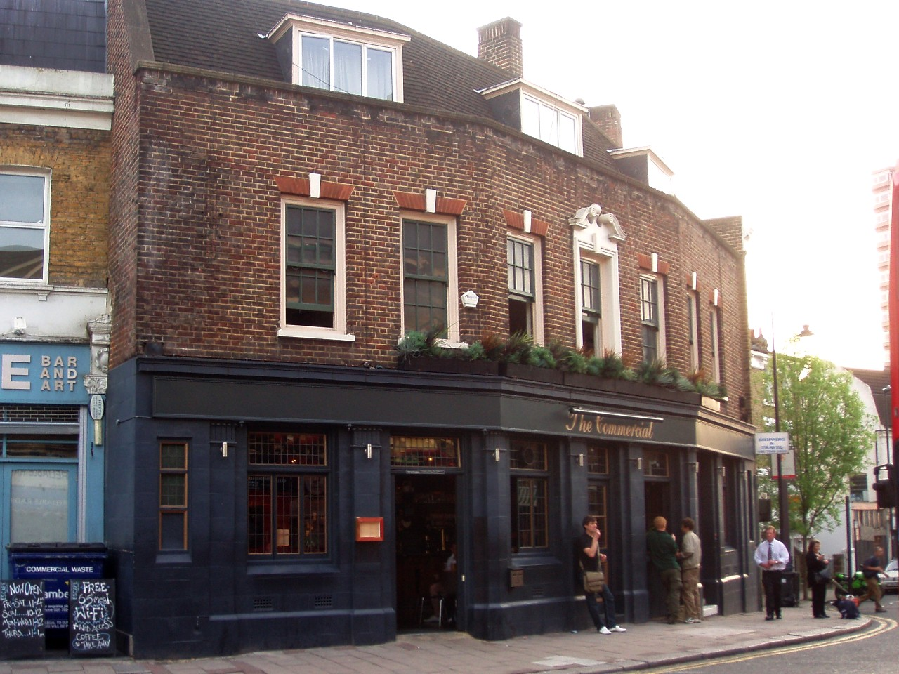 Nice pub opposite Herne Hill station, with a large beer garden. Address: 210-212 Railton Road. Former Name(s): The Commercial Hotel. Owner: Mitchells and Butlers [Metro Professionals] (website). Links: Randomness Guide to London Fancyapint Beer in the Evening